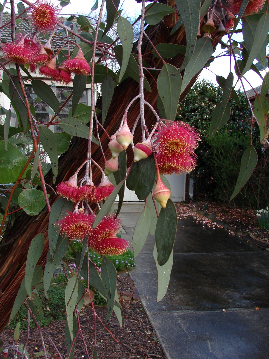 Silver Princess (Eucalyptus caesia)